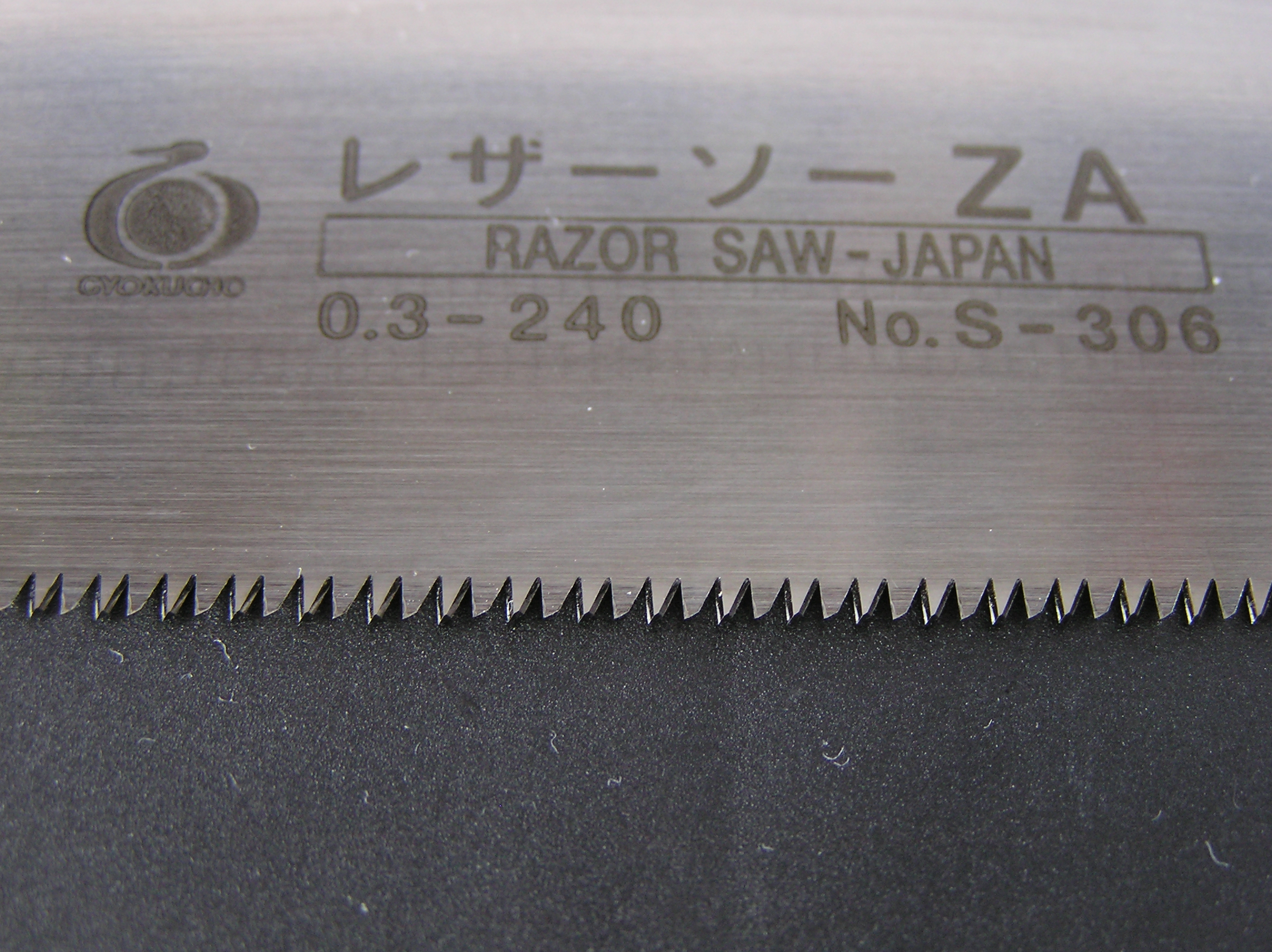 Japanese Saw named Dozuki detail